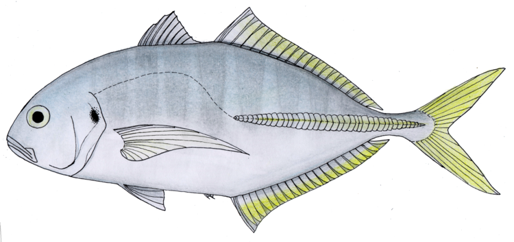 Hand drawn and coloured diagram of the cocinero, Caranx vinctus. Based on photo at